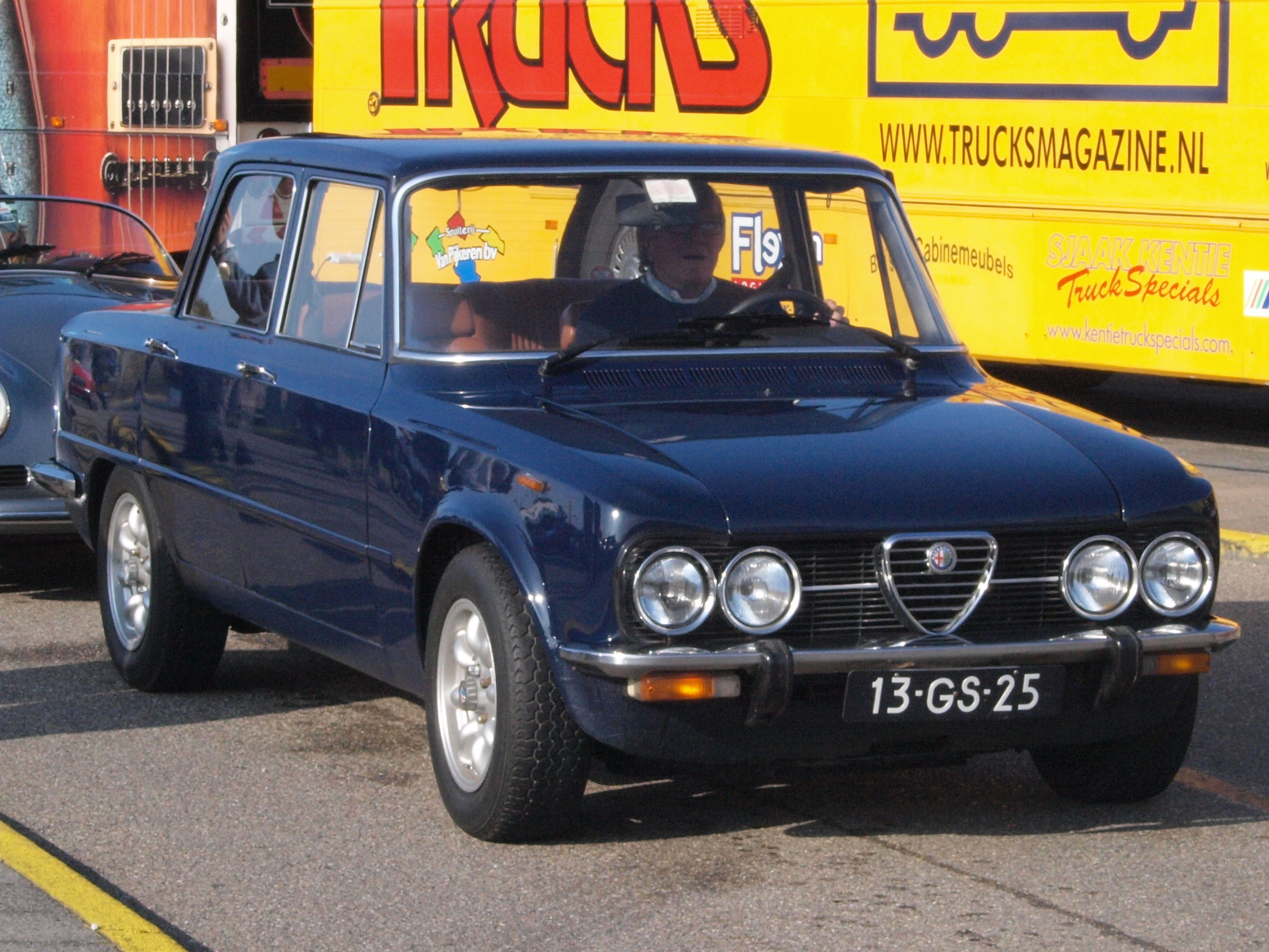 Photographed at the Nationaal Oldtimer Festival Zandvoort 2009, The Netherlands.